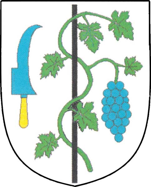 Municipal coat of arms of Sobůlky village, Hodonín District, Czech Republic.